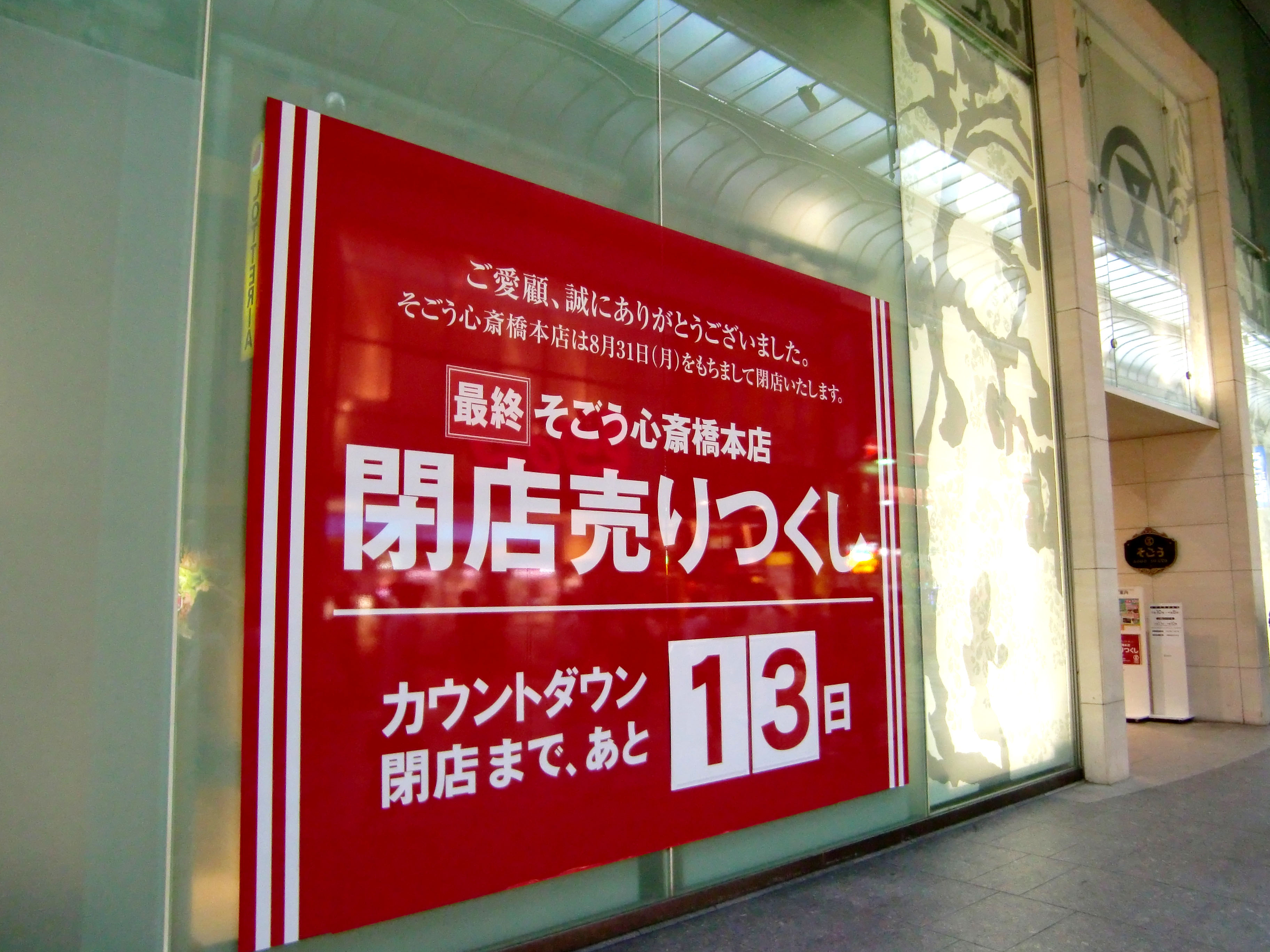 Sogo Shinsaibashi Countdown, 1-2-3 Shinsaibashisuji, Chuo-ku, Osaka City, Osaka, Japan.